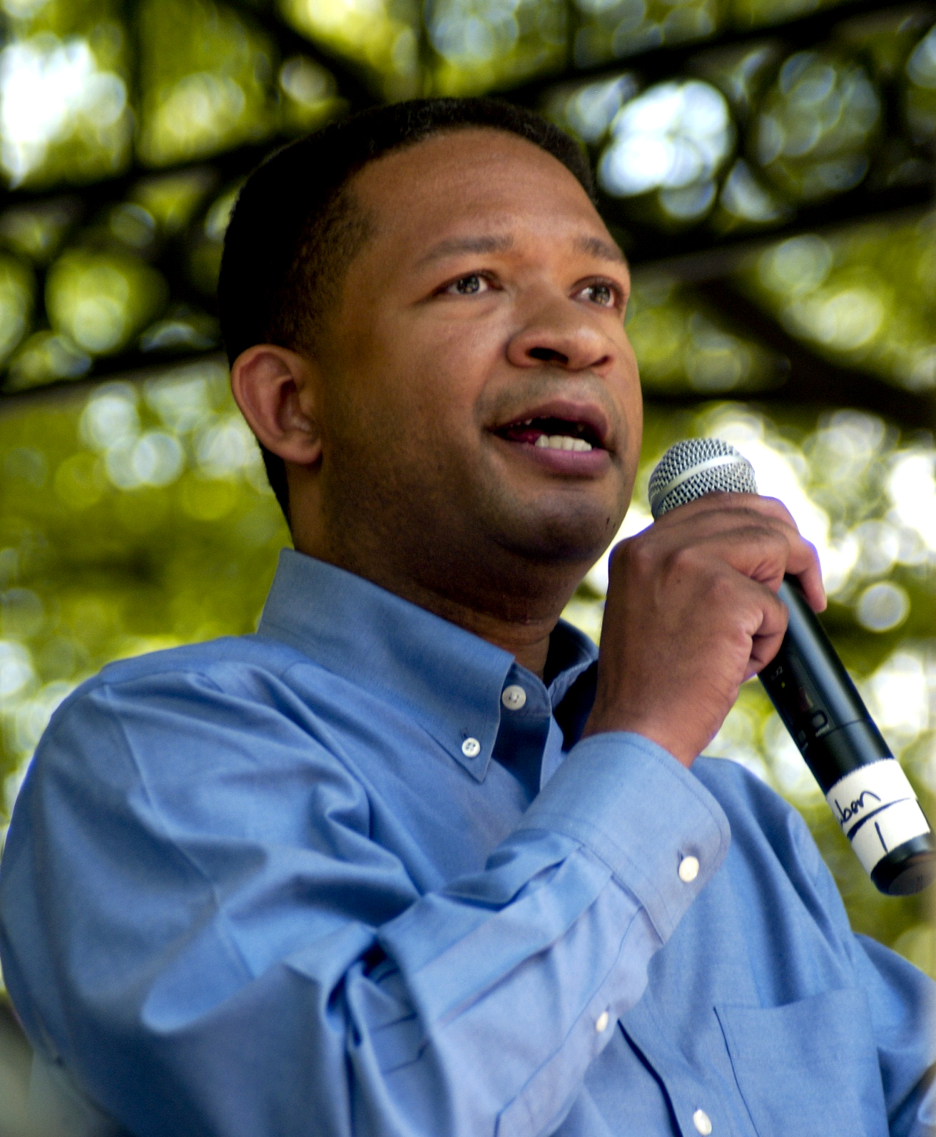 Photograph of Rep. Artur Davis